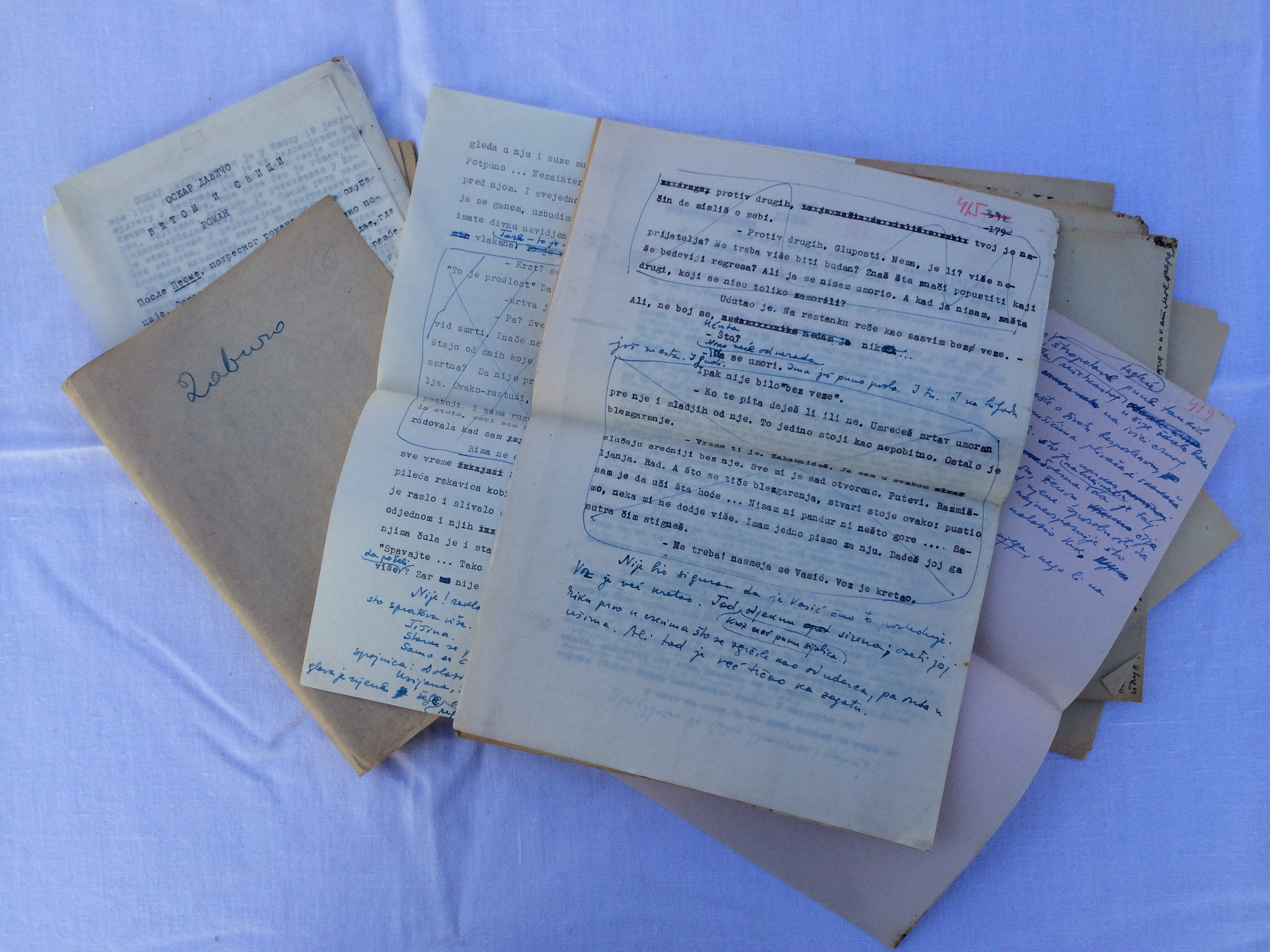 Novel "Beton i svici" by Oskar Davičo in his handwriting. It can be found in the Society for Culture, Art and International Cooperation Adligat in Belgrade, Serbia. Српски (ћирилица): Давичов рукопис романа „Бетон и свици" за који је добио НИН-ову награду. Налази се у Удружењу за културу, уметност и међународну сарадњу „Адлигат“ у Београду.